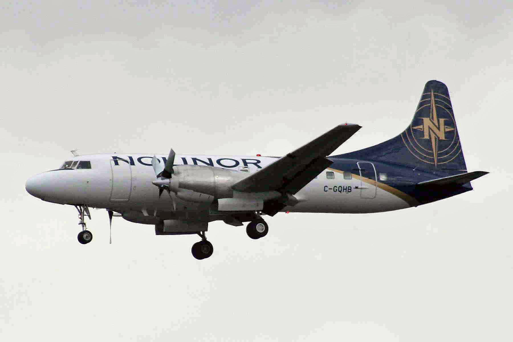 A picture of an airplane (name of it is on the file name).